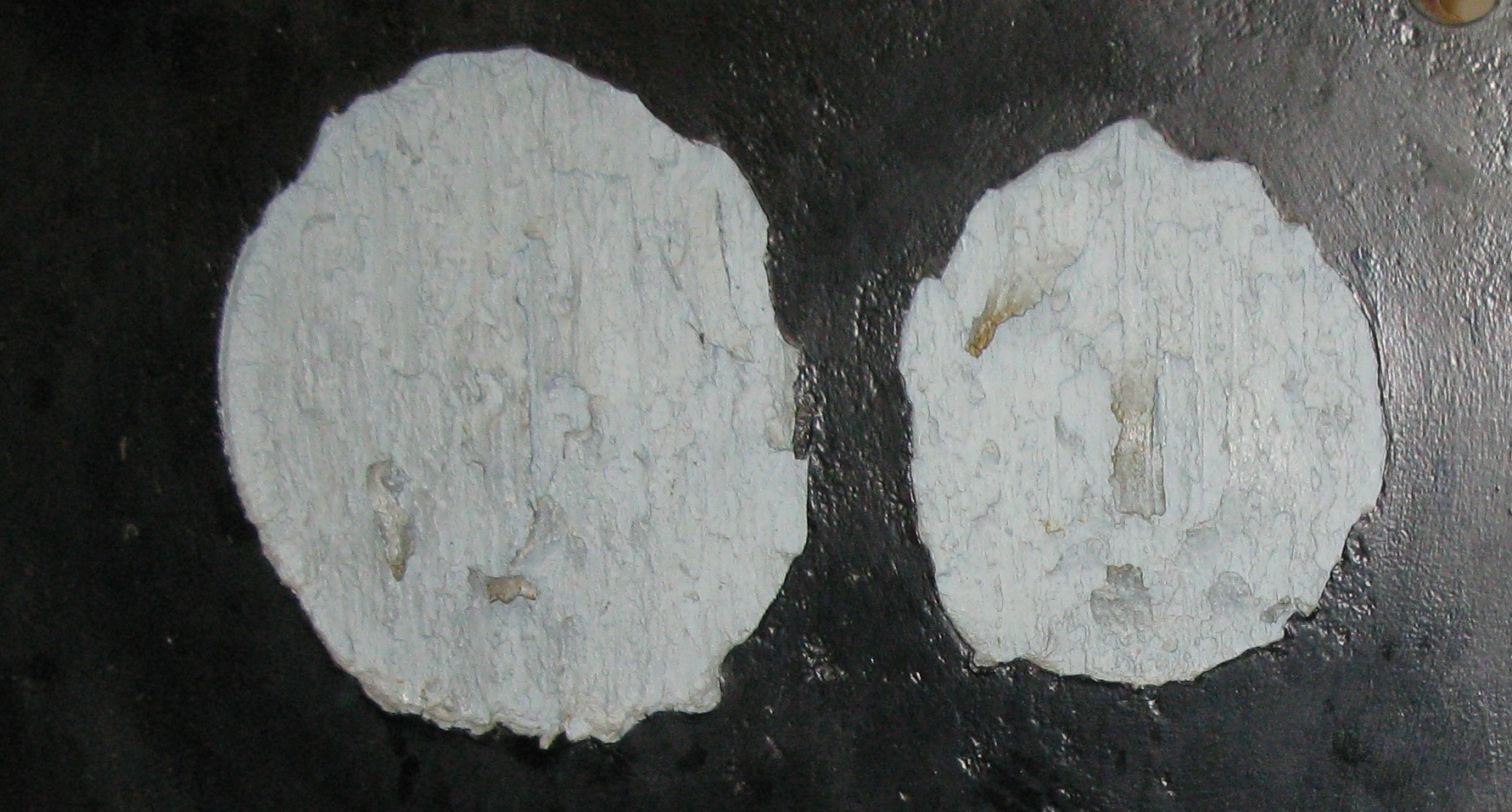 Damage caused by HESH (High Explosive Squash Head) shells to ~2 inch thick armour plating. The photograph shows the armour on the opposite side of the strike where chunks of metal have been ripped out.